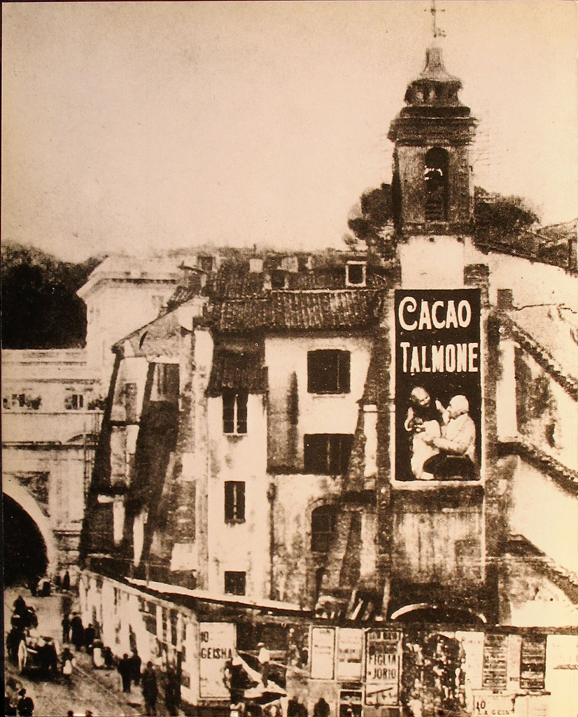 Português do Brasil: Bell tower of San Nicola in Arcione ca. 1900s by unknown photographer